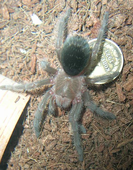 Spider Grammostola Pulchra age L5 after moulting (see image GrammostolaPulchraL4BeforeMoulting.JPG)